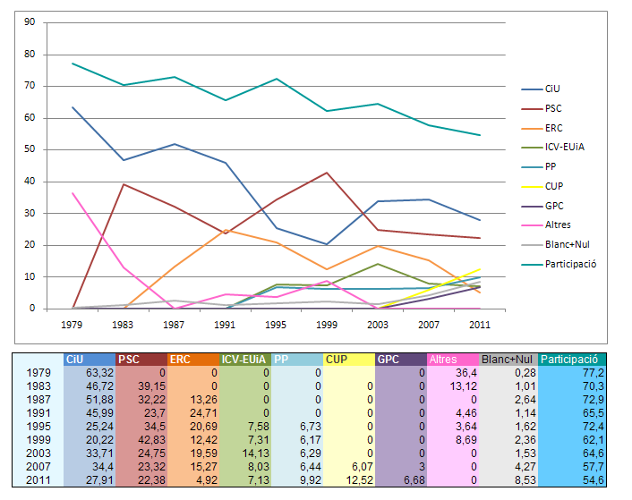 Graphic with the City Hall elections results from 1979 to 2011 at Cardedeu (Barcelona, Catalonia).